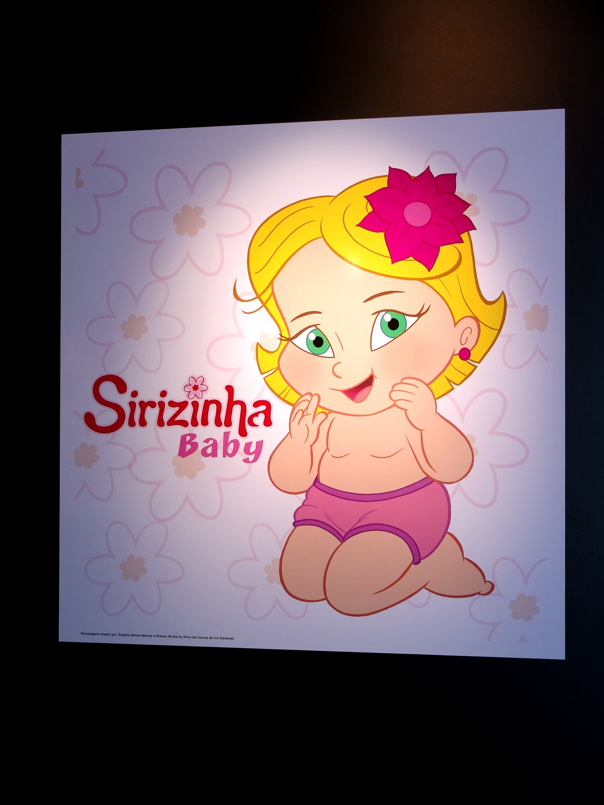 Sirizinha Baby is a character based on Íris Stefanelli.